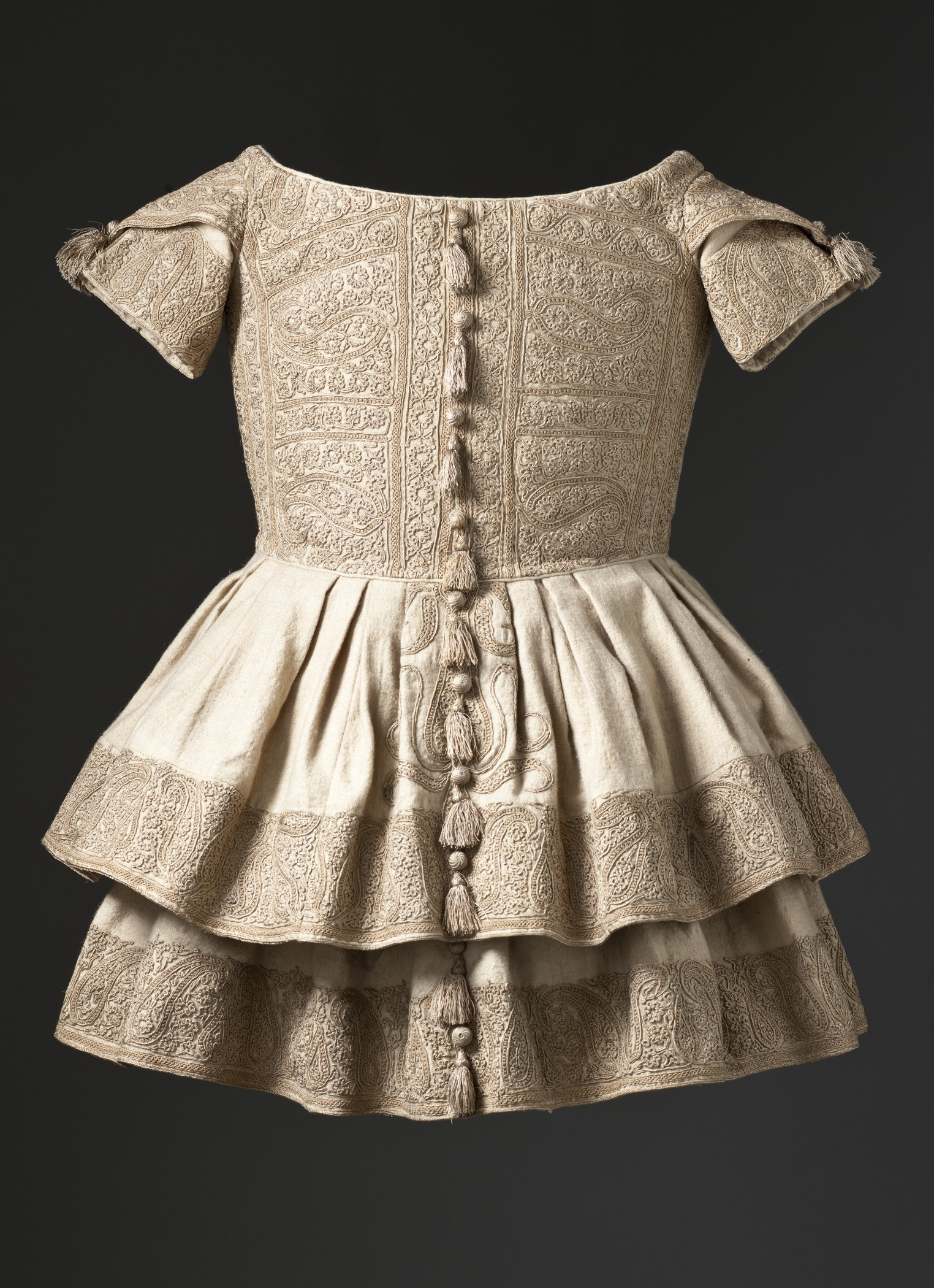 India, Kashmir, for the Western market, circa 1855 Costumes; principal attire (entire body) Goat-fleece underdown (cashmere wool) twill with silk embroidery and silk tassels Center back length: 20 in. (50.8 cm) Purchased with funds provided by Suzanne A. Saperstein and Michael and Ellen Michelson, with additional funding from the Costume Council, the Edgerton Foundation, Gail and Gerald Oppenheimer, Maureen H. Shapiro, Grace Tsao, and Lenore and Richard Wayne (M.2007.211.88) Costume and Textiles